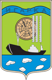 Igarka (Krasnoyarsk krai), coat of arms (1977)